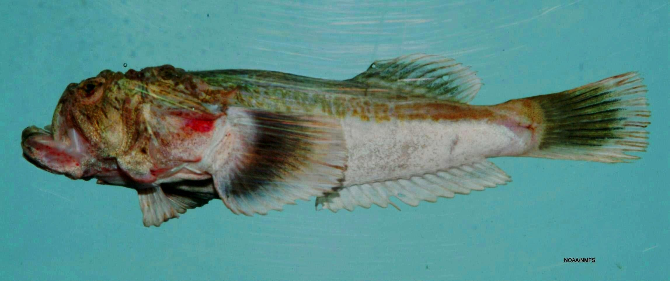 Freckled stargazer (Xenocephalus egregius) from the Gulf of Mexico